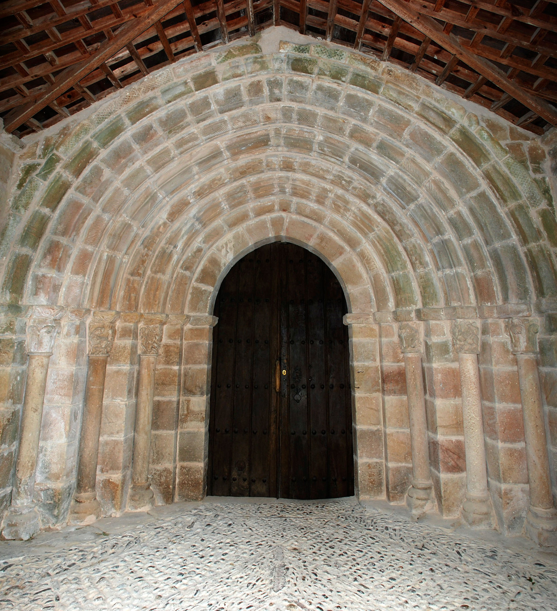 Romanesque portal of the Church of Saint Andrew in Cabria (Palencia, Castile and León).